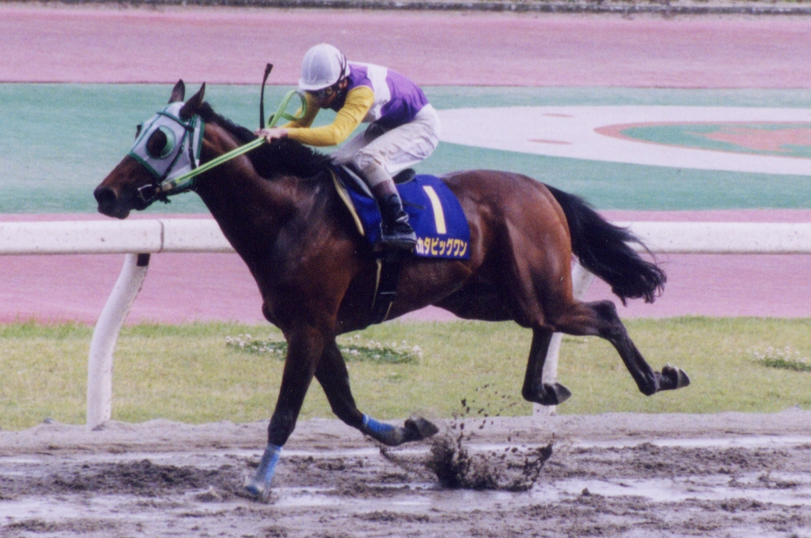 Hakata Big One